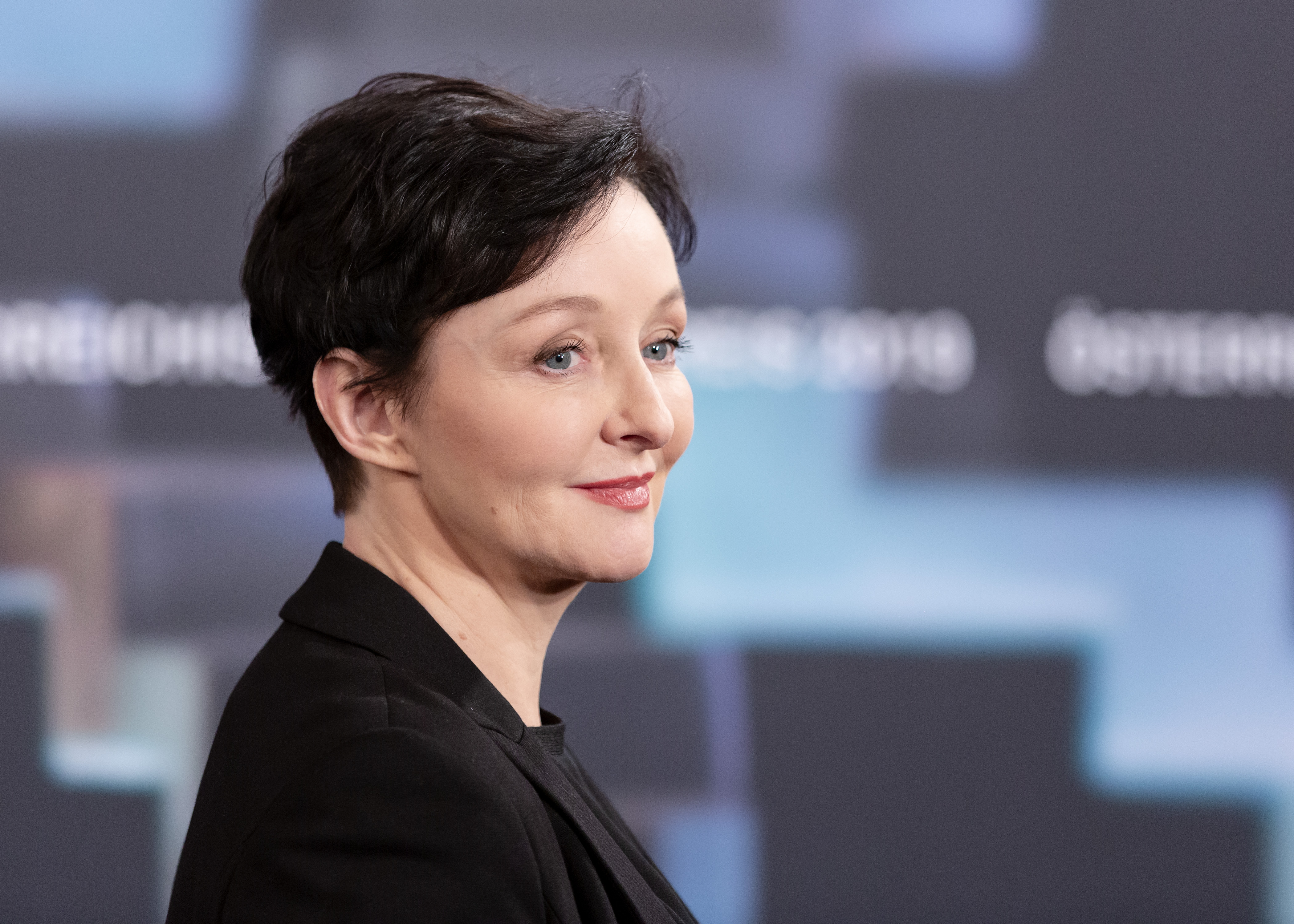 Regina Fritsch, photo call at the Austrian Film Awards 2019 (Rathaus, Vienna,Austria).